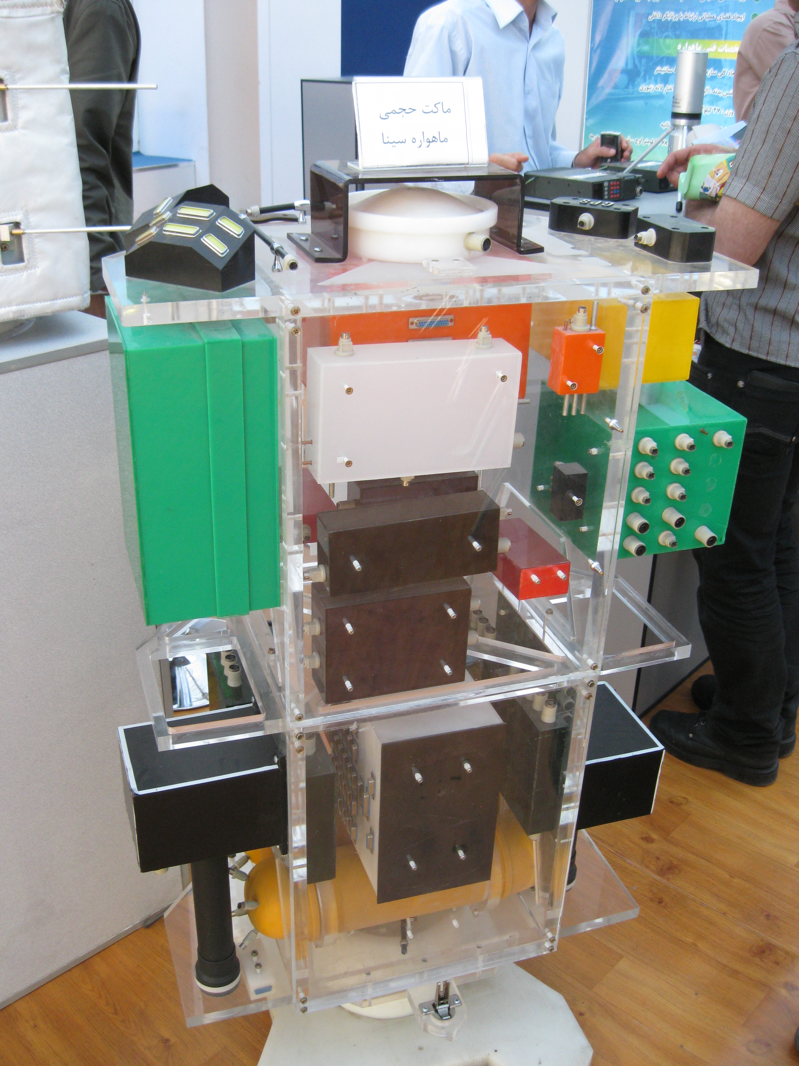 Omid [was Iran's first domestically made satellite Described as a data-processing satellite for research and telecommunications, Iran's state television reported that it was successfully launched on February 2, 2009